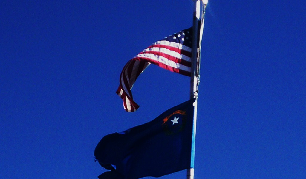 Nevada State Flag in Ely, Nevada.